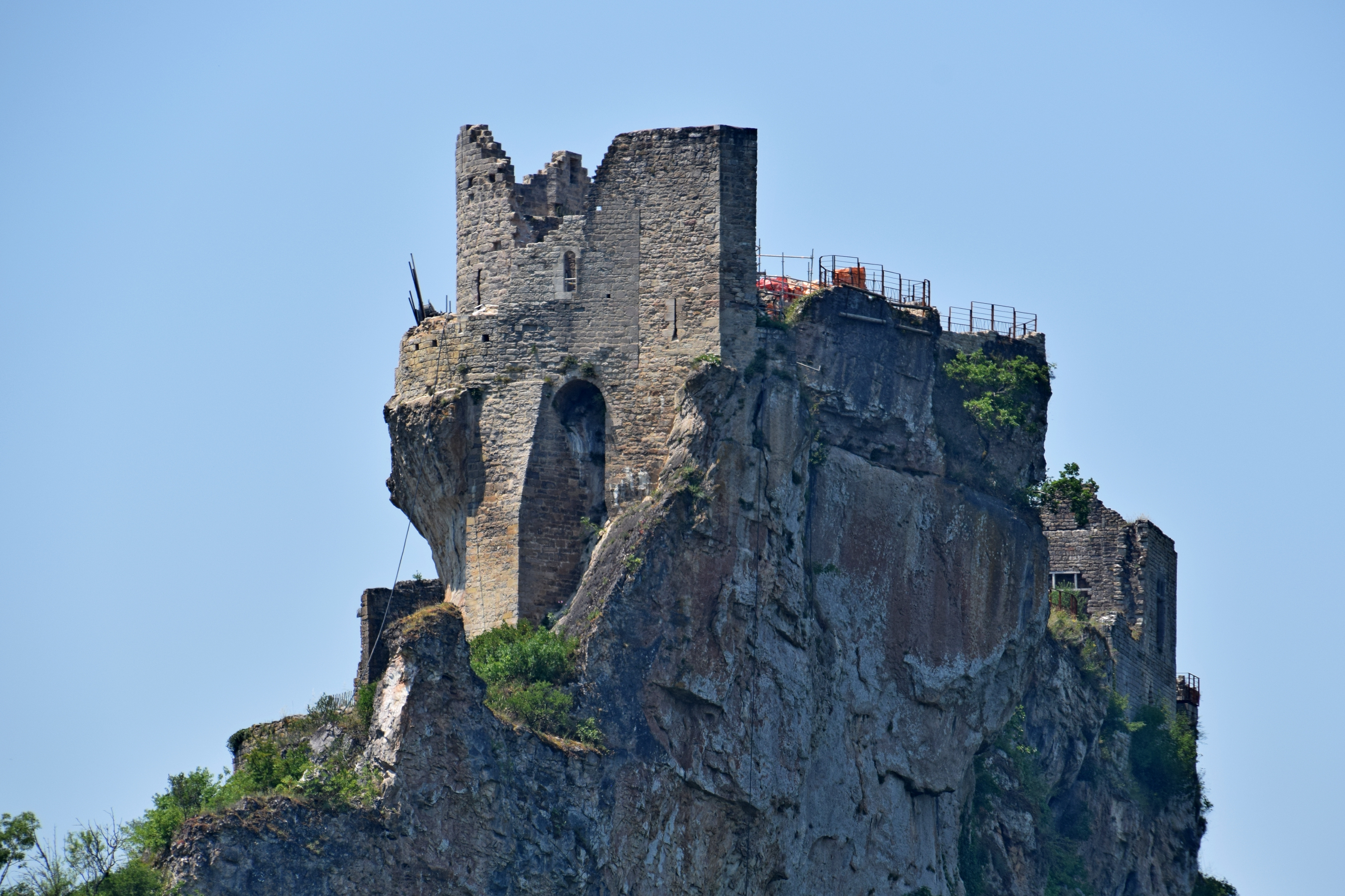 Castle of Penne, Tarn, France